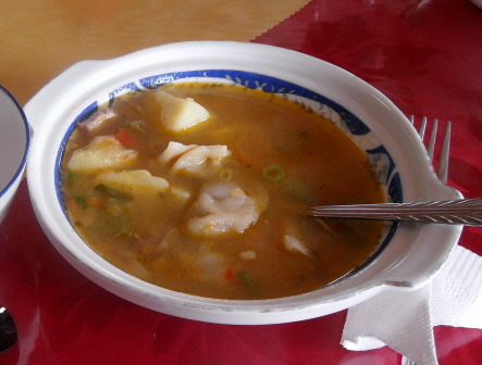 Spicy banš soup